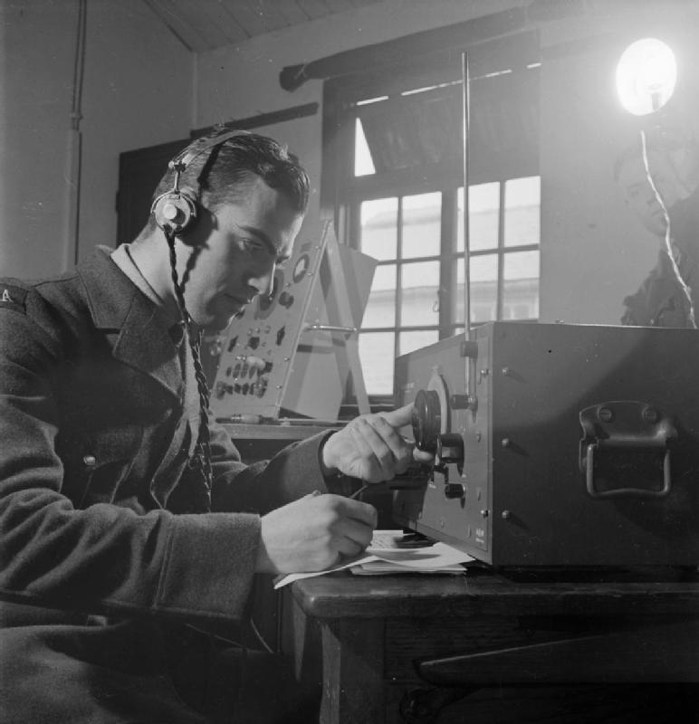 Americans in Britain- the Training of the Civilian Technical Corps at RAF Radio School, Cranwell, England, 1941 Paul Hand, from Woodhaven, Long Island, New York, at work on a radio as part of his training at No. 1 Radio School, RAF Cranwell.